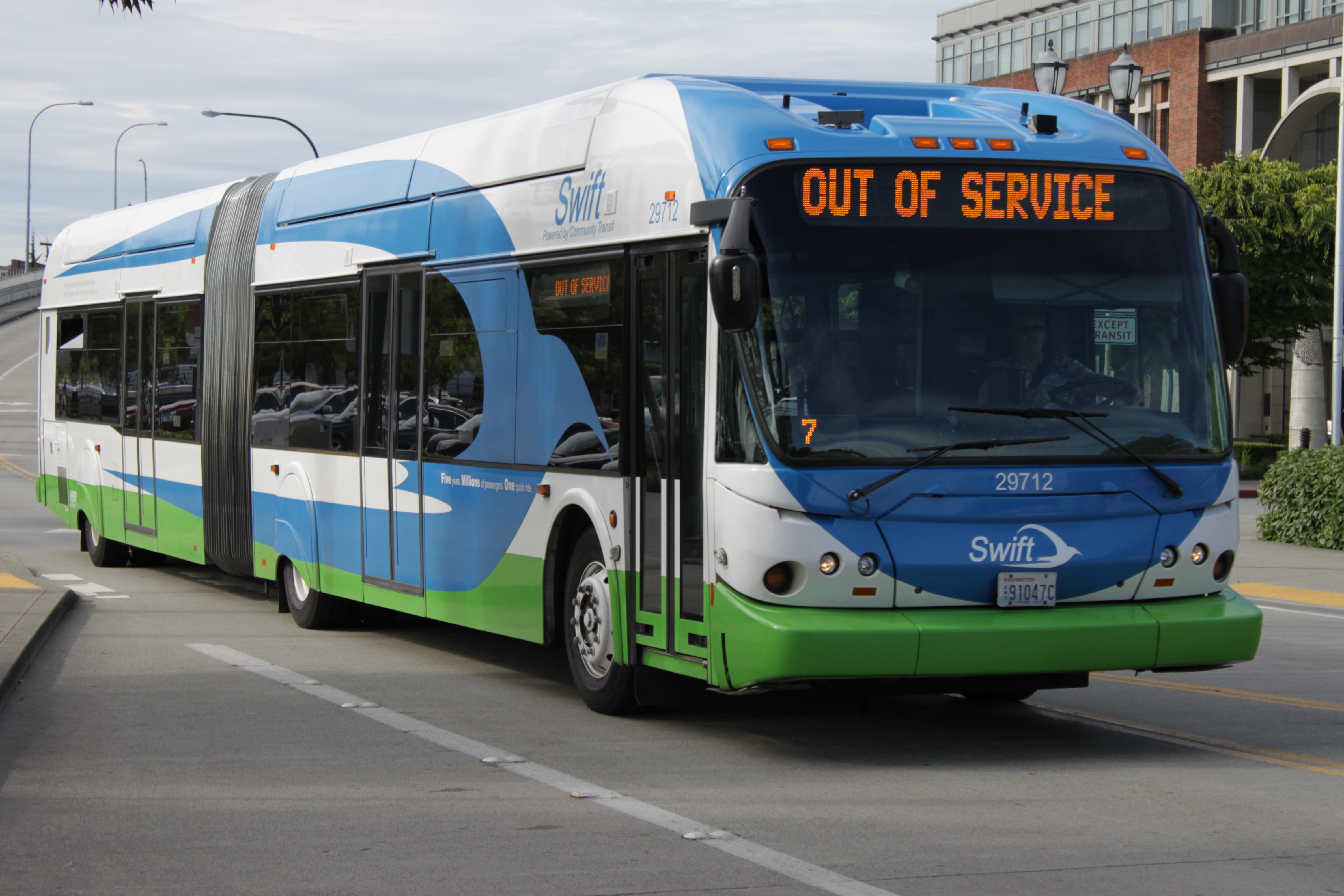 A deadheading articulated bus on Community Transit's Swift BRT line, headed towards the northern terminus at Everett Station.